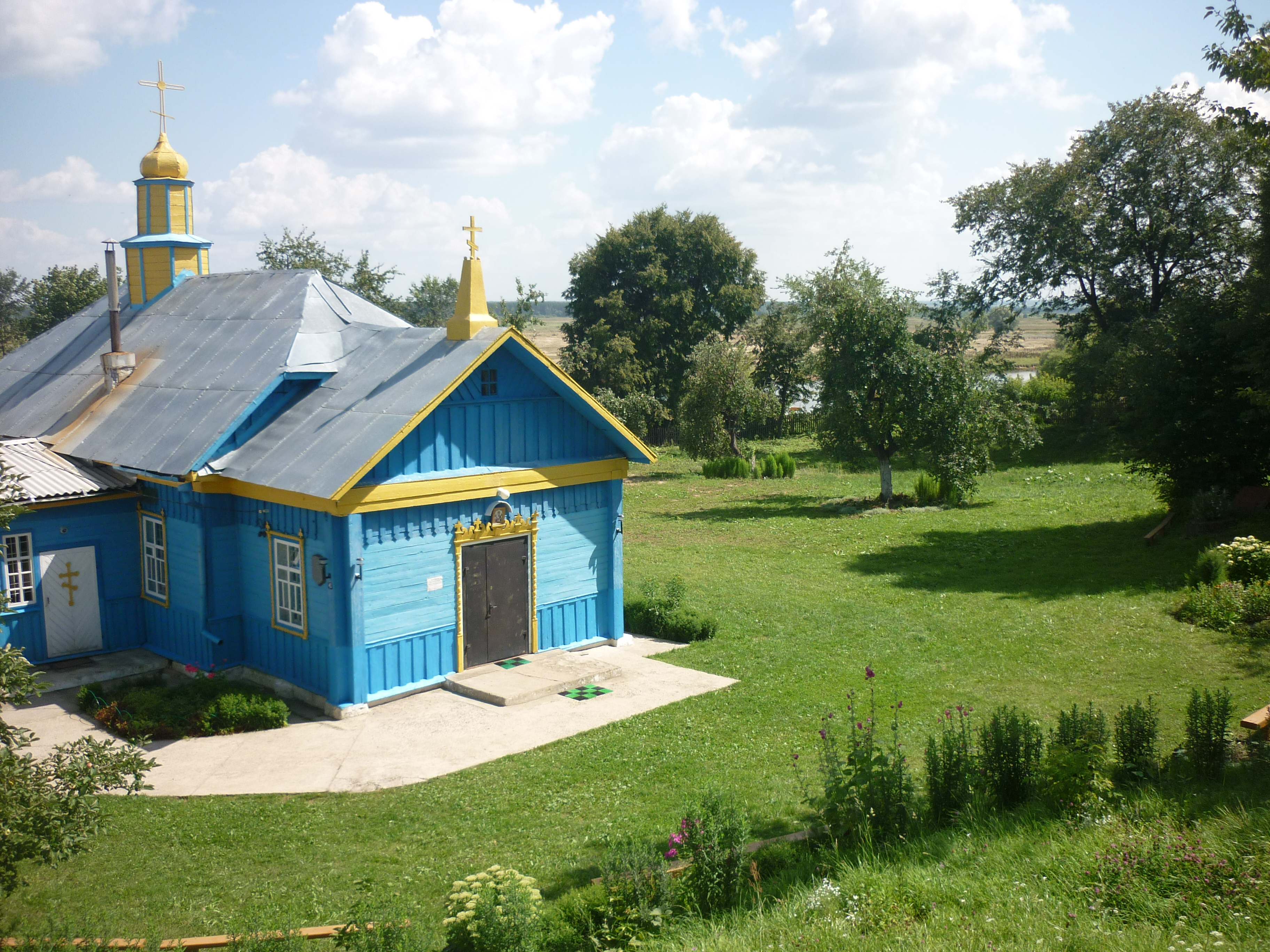 Saint Nicholas churches in Krichev, Belarus This is a photo of Belarusian heritage monument. Reference number: 513Г000482 ( WLM)